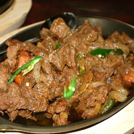 Camel tibs in Djibouti